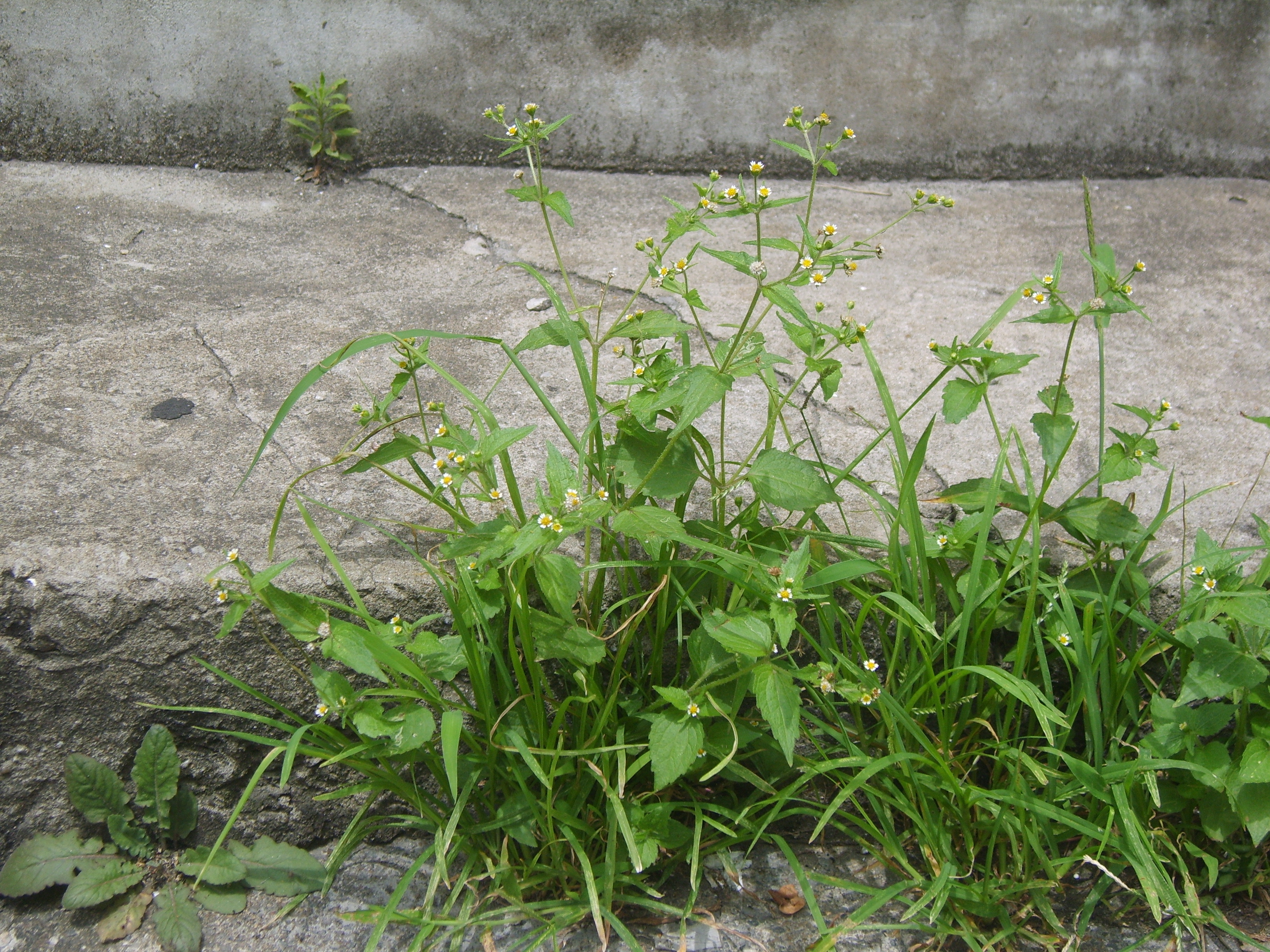 Galinsoga quadriradiata in Bupyung, Korea